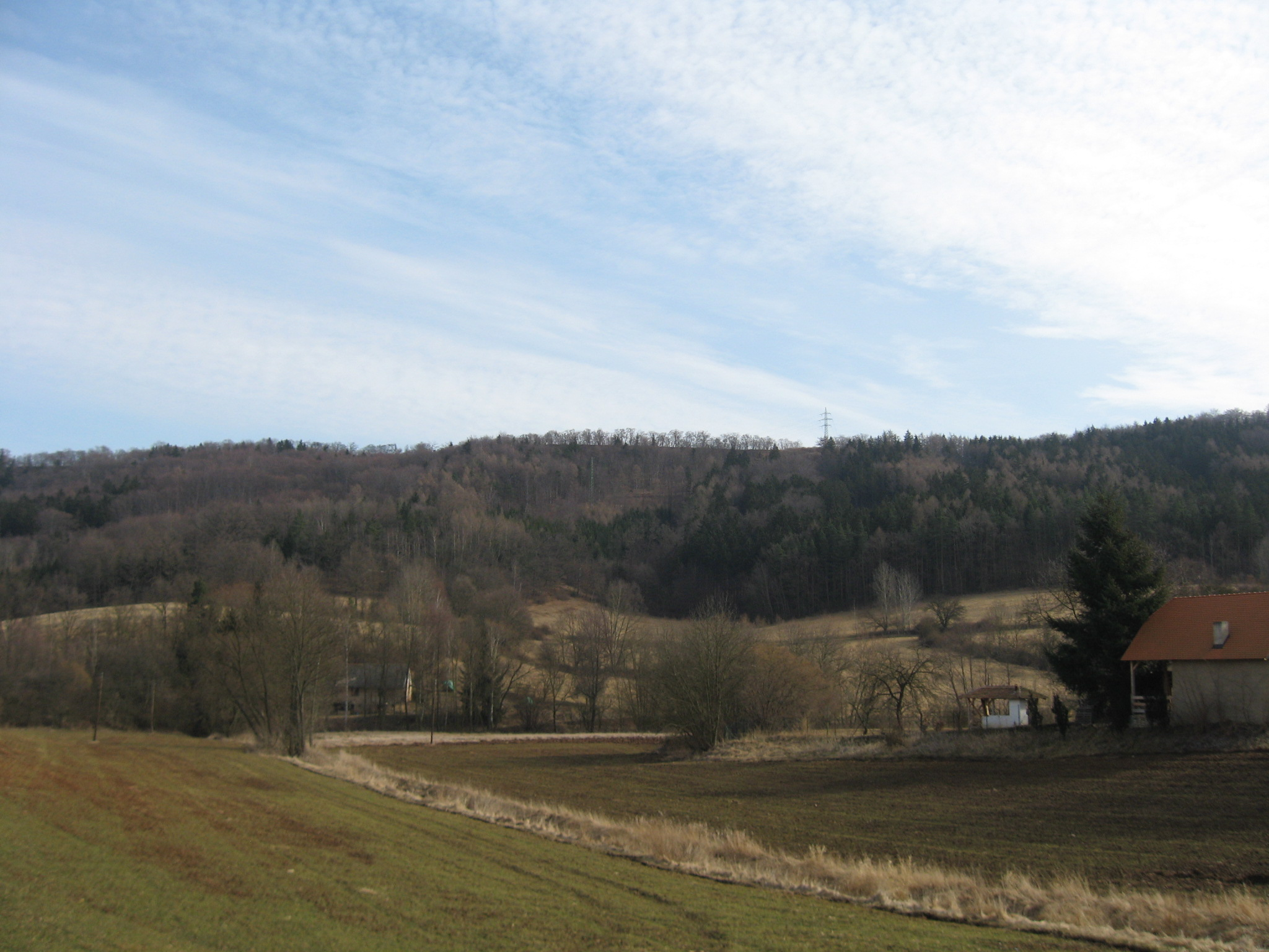 Dřevíč, Czech Republic - Fortified Settlement from West